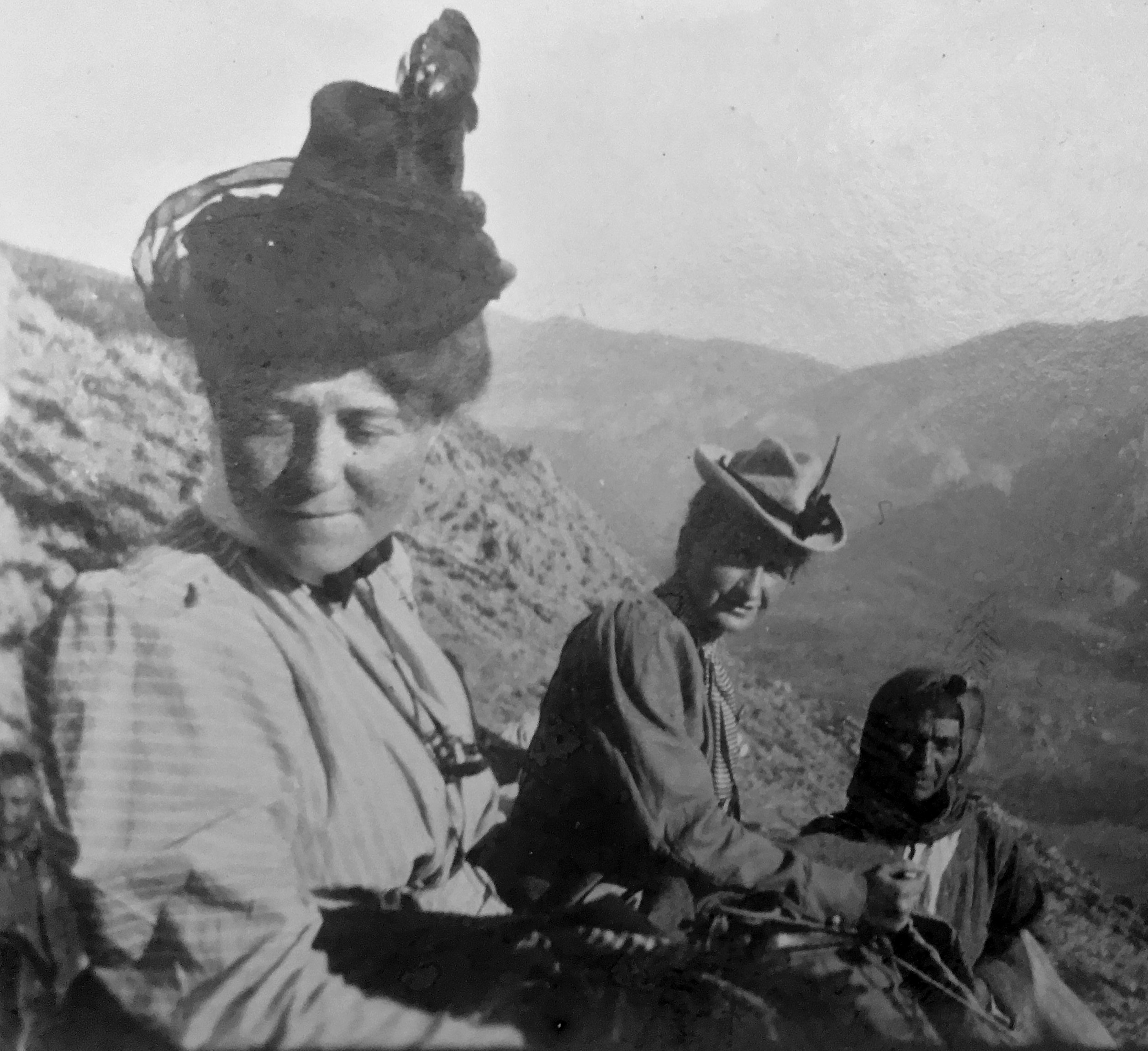 "Group after leaving Delphi, on the way up Parnassus. Blanche Wheeler Williams on left. Courtesy of the Smith College Archives." Brown Image c. 1900, the only time Williams was known to be in Greece